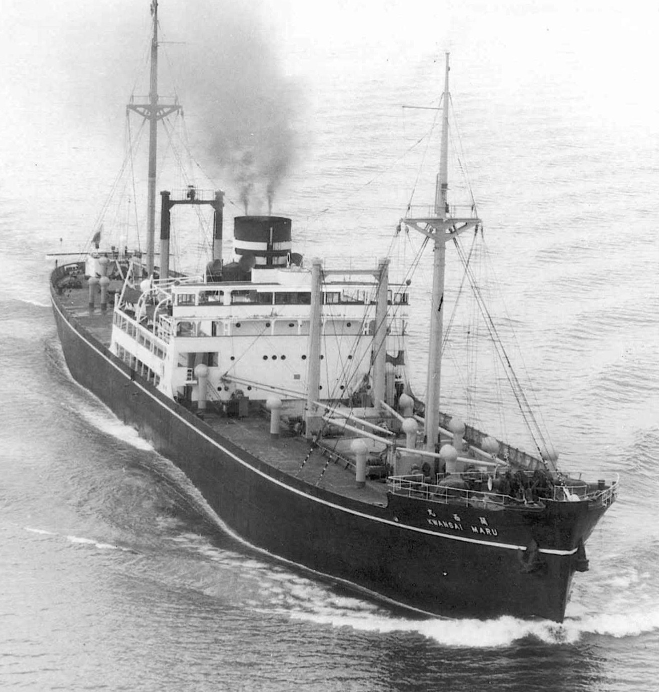 View of the ship Kansai Maru